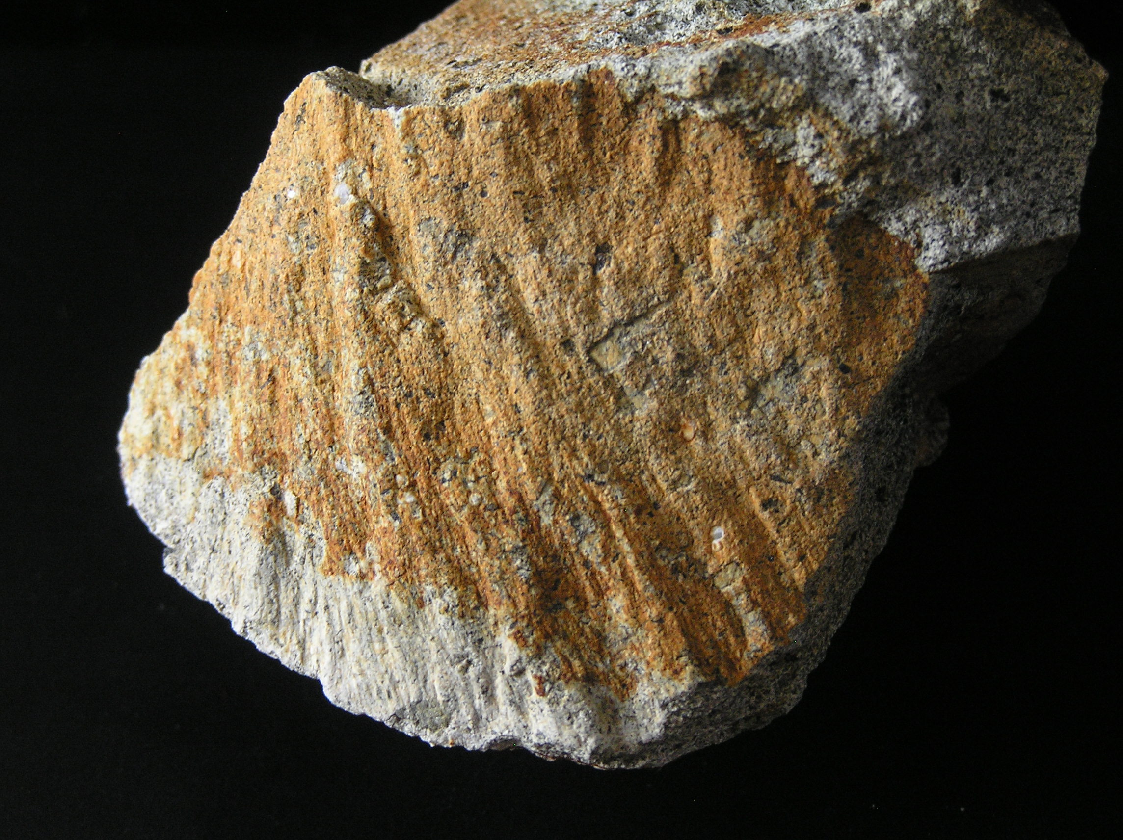 Shatter cone in kersantite from the abandoned quarry Wengenhausen in the impact crater Nördlinger Ries, Germagy. Width of the specimen is 7 cm. See Baier, J. & Sach, V. J. (2018): Shatter-Cones aus den Impaktkratern Nördlinger Ries und Steinheimer Becken. Fossilien, 35(2): 228–232. Description from there: Shatter-Cone in Kersantit aus dem aufgelassenen Steinbruch Wengenhausen. Breite des Handstücks: 7 cm. Fund: V. J. Sach; Slg. & Foto: J. Baier